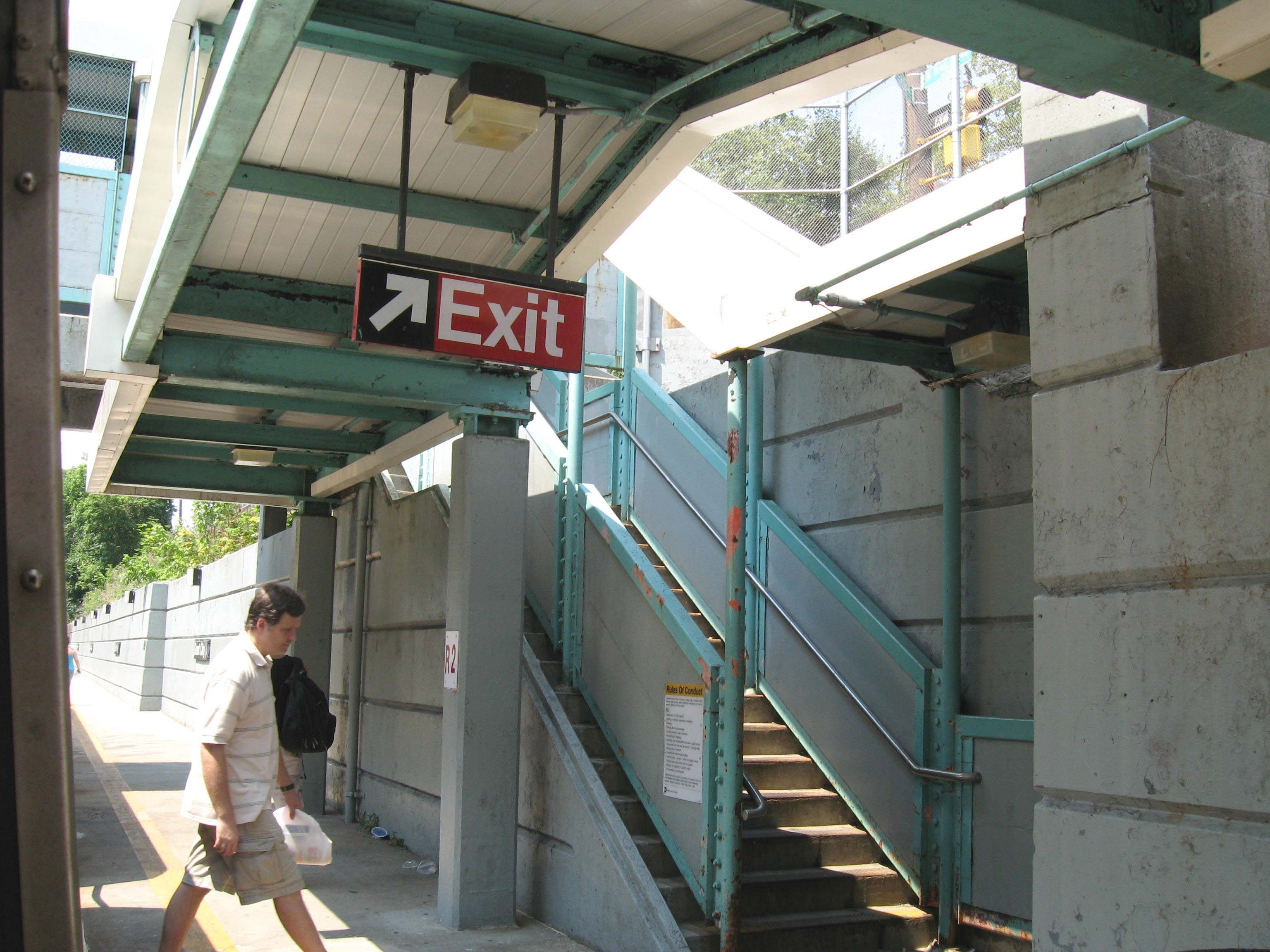 Looking west from southbound car at platform and stair of Grant City (Staten Island Railway station) on a sunny midday